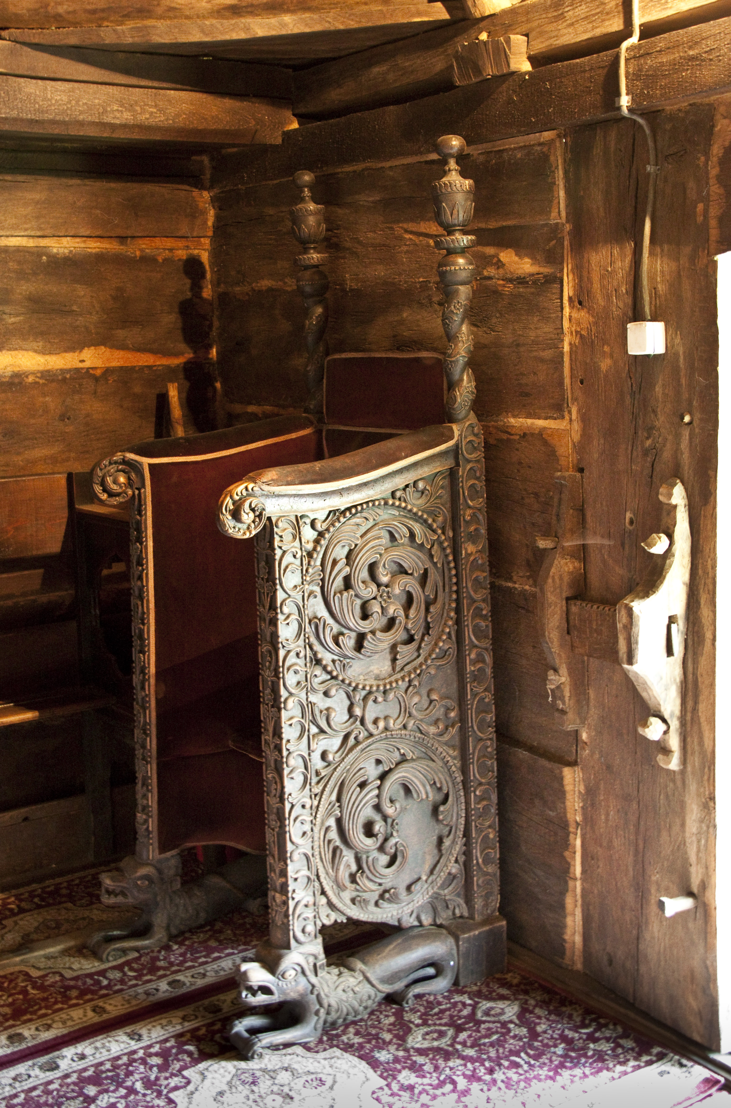 Palanga, Vâlcea county, Romania: the wooden church moved in Curtea de Argeş.